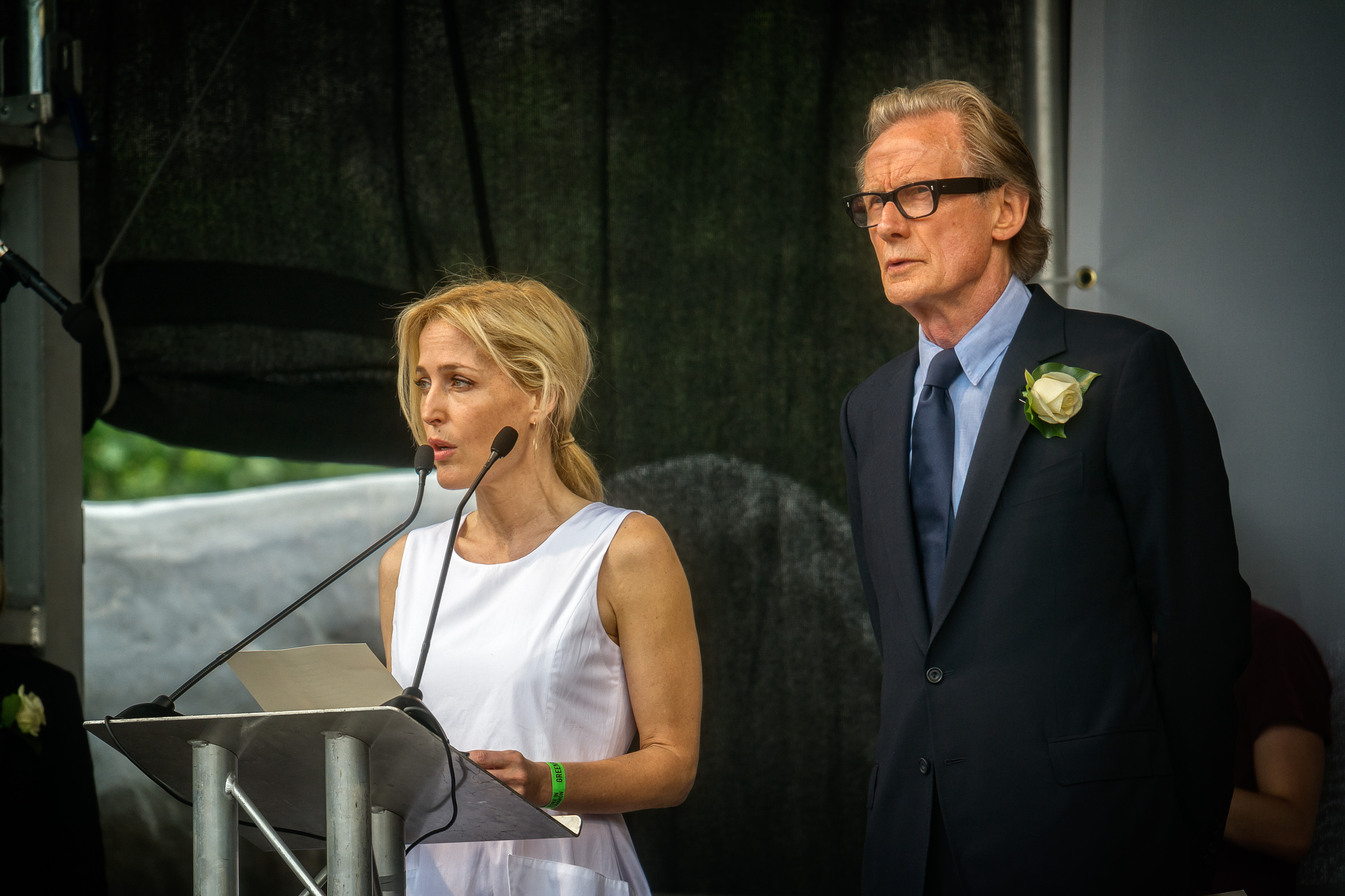 Photos taken at the birthday memorial for Jo Cox, MP, at London's Trafalgar Square.